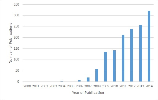 Number of publications with default mode network in the title by year